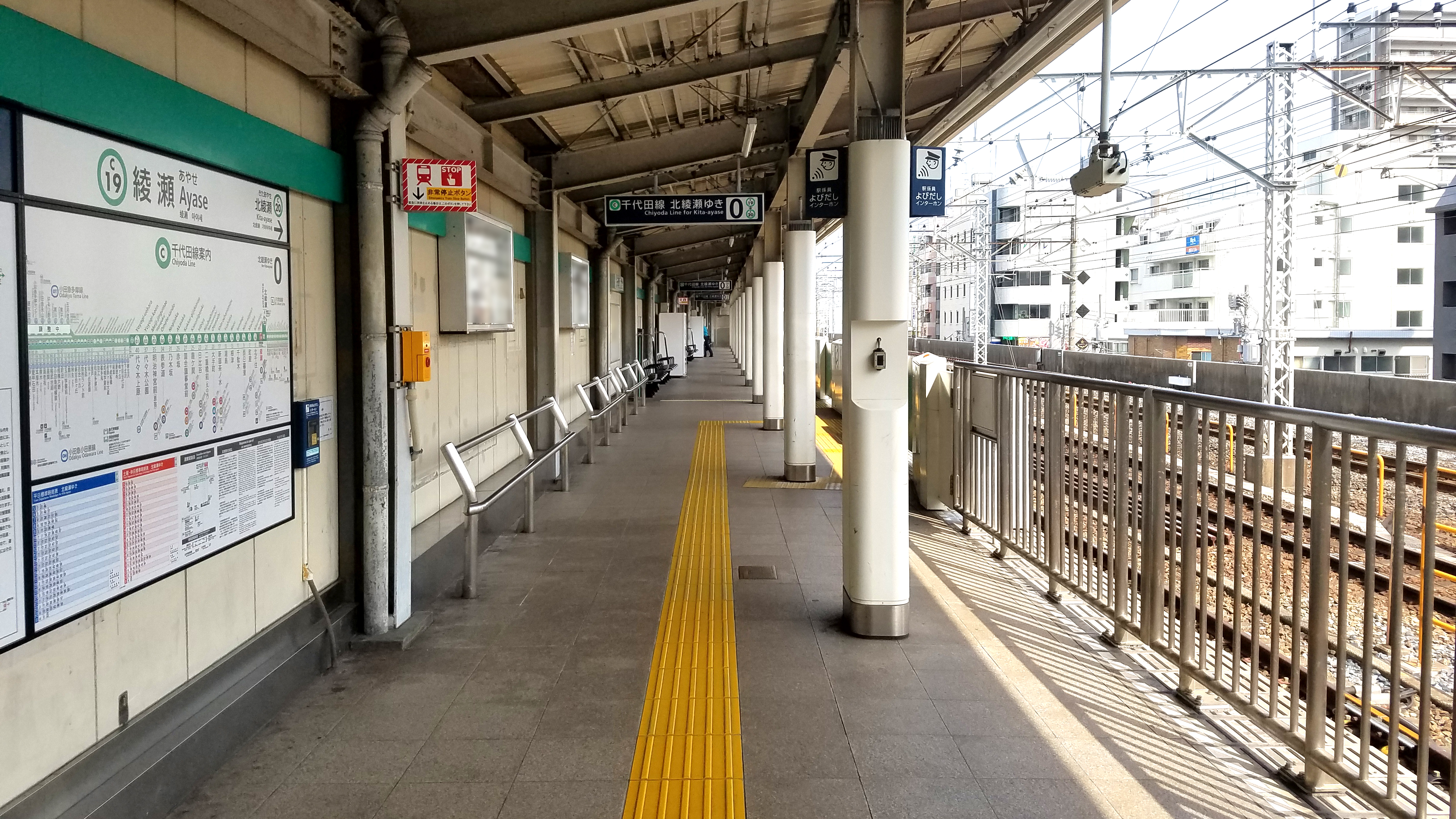 The Kita-ayase-bound(no.0) platform at Ayase Station on the Tokyo Metro Chiyoda Line in Adachi city, Tokyo, Japan